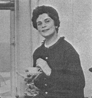 Photograph of the Finnish reviewer Sole Uexküll (1920–1978).